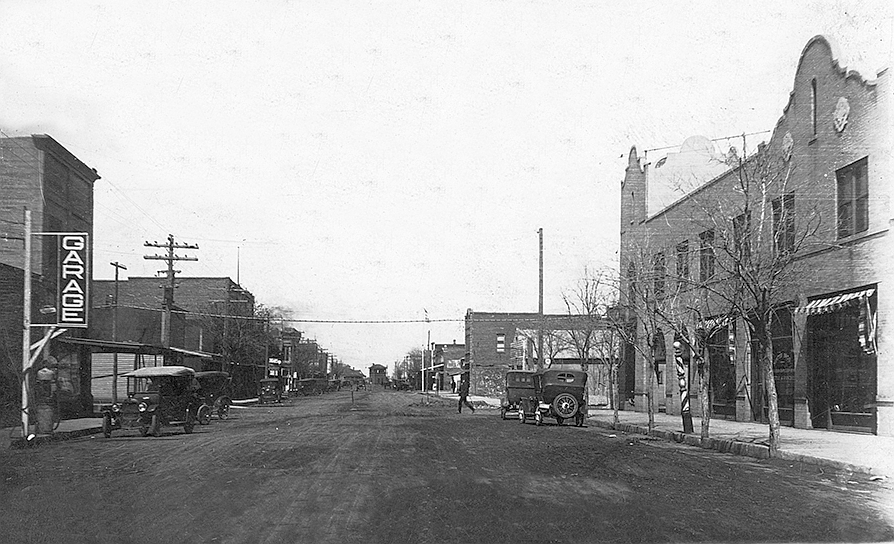 Title: Street Scene, Dalhart, Texas Creator: Unknown Date: ca. 1910-1930 Part of: George W. Cook Dallas/Texas image collection Series: Series 3: Photographs Series 3, Subseries 3, Postcards Series 3, Subseries 3d, RPPC, Texas Place: Dalhart, Dallam County, Texas Description: Automobiles in the streets of Dalhart. Physical Description: 1 photographic print (postcard): gelatin silver; 9 x 14 cm File: a2014_0020_3_3_d_0440_r_dalhartstreet_opt.jpg Rights: Please cite DeGolyer Library, Southern Methodist University when using this file. A high-resolution version of this file may be obtained for a fee by contacting . For more information and to view the image in high resolution, see